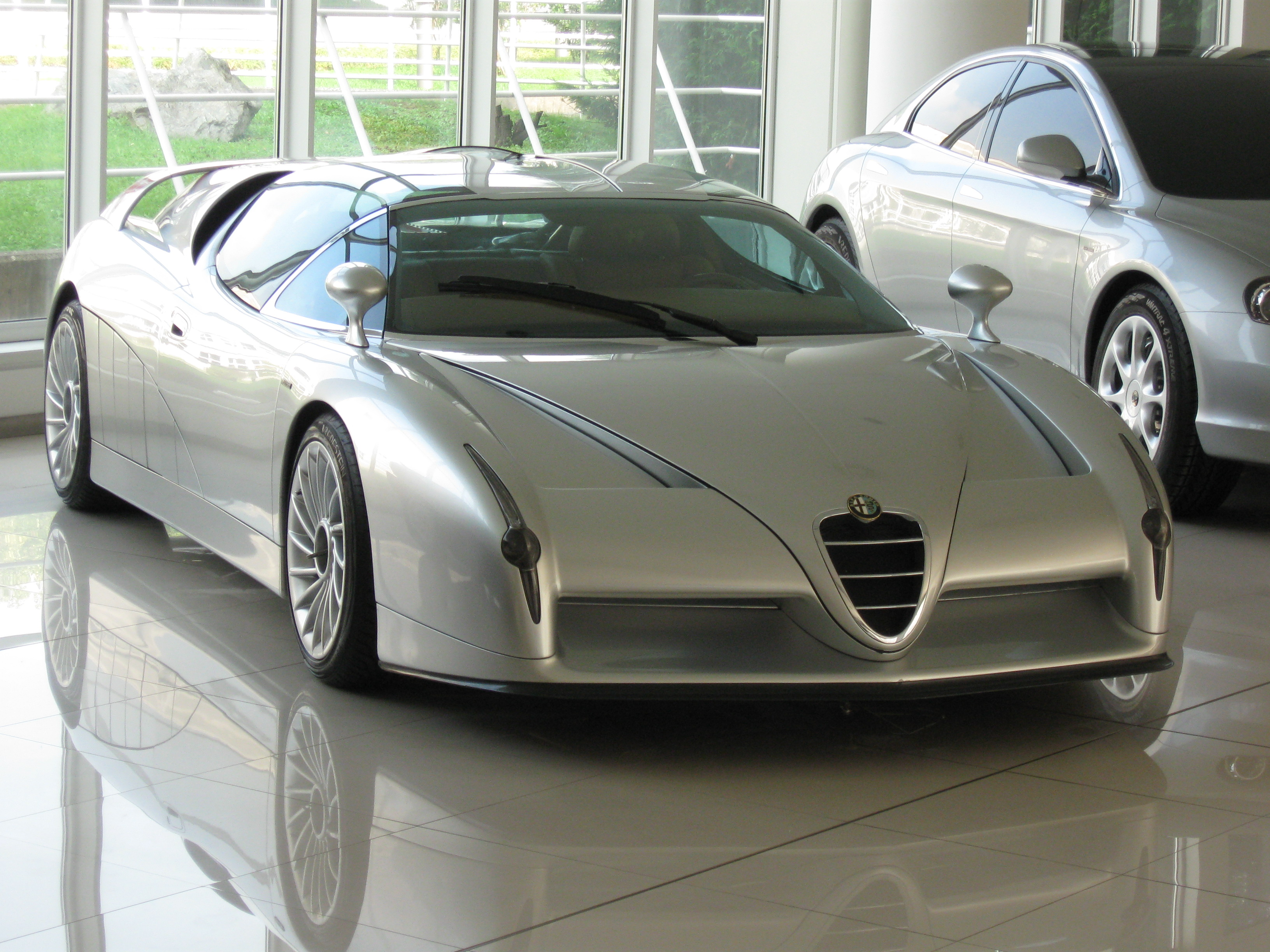 The Alfa Romeo 164 Q4 Italdesign Scighera, a 1997 concept car styled by Giorgetto Giugiaro and exhibited at Italdesign in Moncalieri, Turin, Italy. Based on the Alfa Romeo 164, «Scighera» is a word of the Milanese dialect which means «fog».